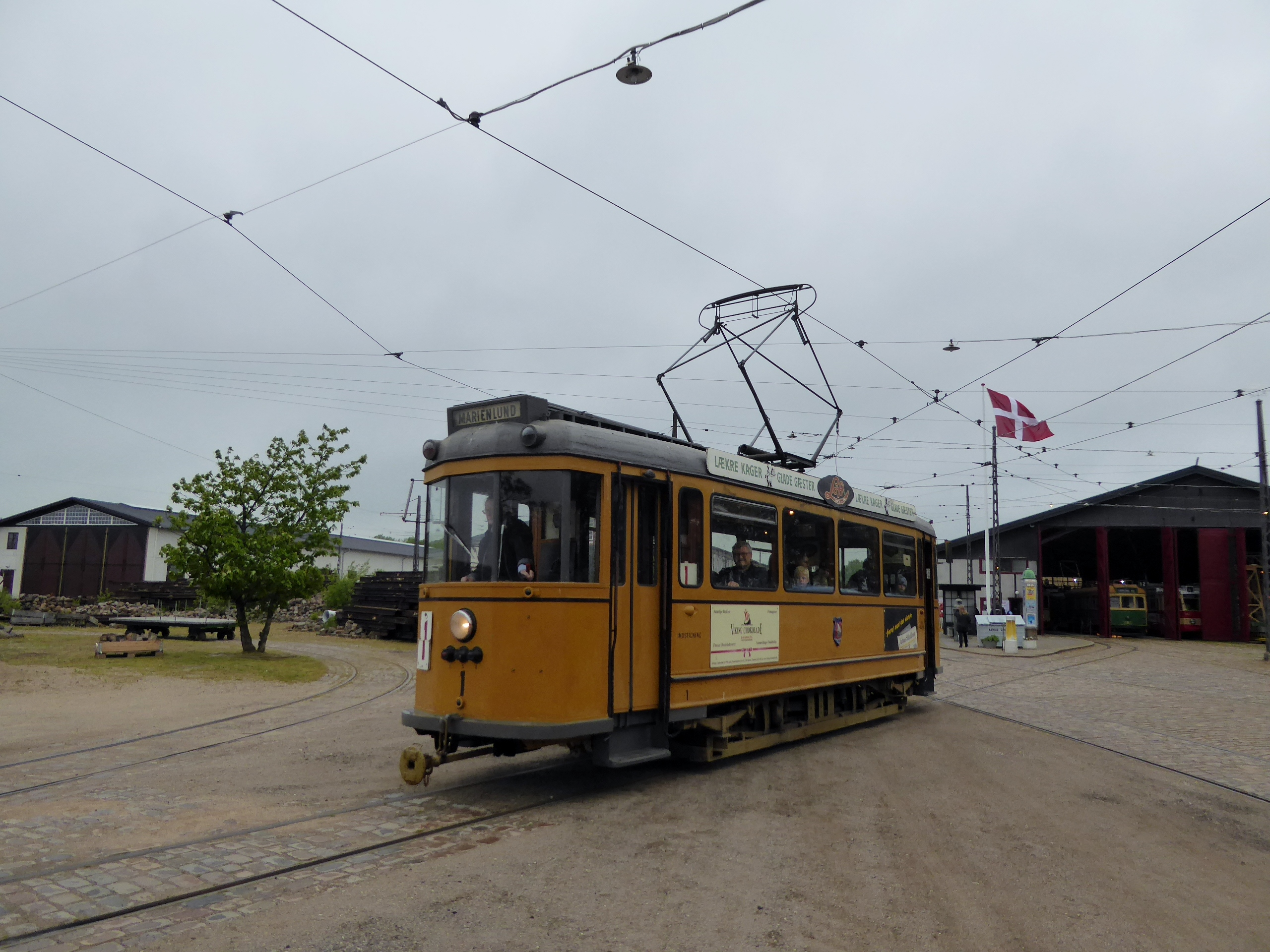 Old tram of Aarhus, ÅS 1 from 1945, at Sporvejsmuseet Skjoldenæsholm in Denmark.